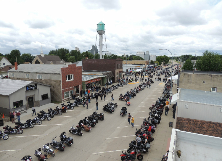 Main Street Cavalier, North Dakota, during the 2017 Annual Cavalier Motorcycle Ride In.